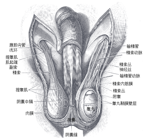 The scrotum. The penis has been turned upward, and the anterior wall of the scrotum has been removed. On the right side, the spermatic cord, the infundibuliform fascia, and the Cremaster muscle are displayed; on the left side, the infundibuliform fascia has been divided by a longitudinal incision passing along the front of the cord and the testicle, and a portion of the parietal layer of the tunica vaginalis has been removed to display the testicle and a portion of the head of the epididymis, which are covered by the visceral layer of the tunica vaginalis. (Toldt.)